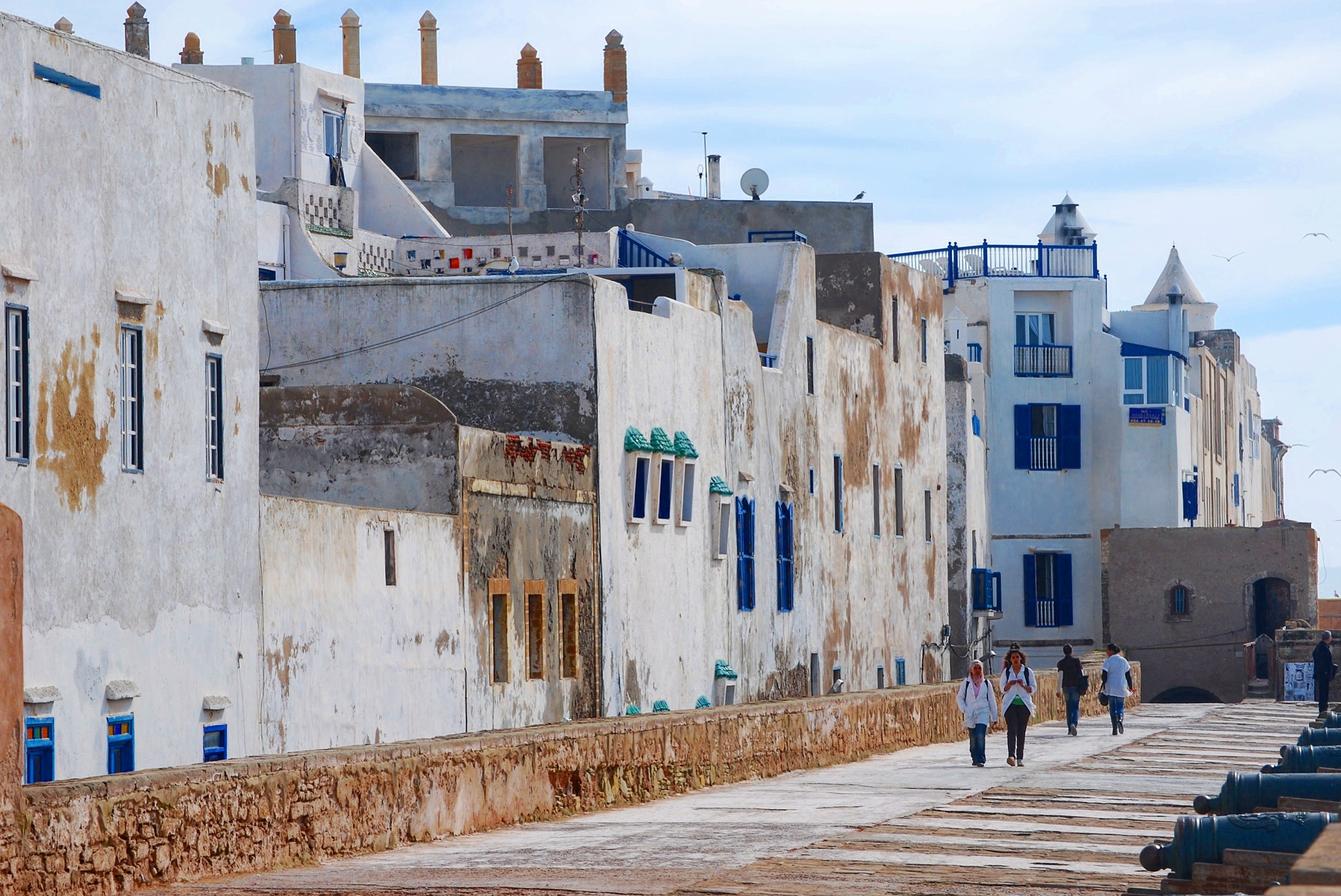 The photo shows buildings in Essaouira, Morocco, facing the Atlantic Ocean.